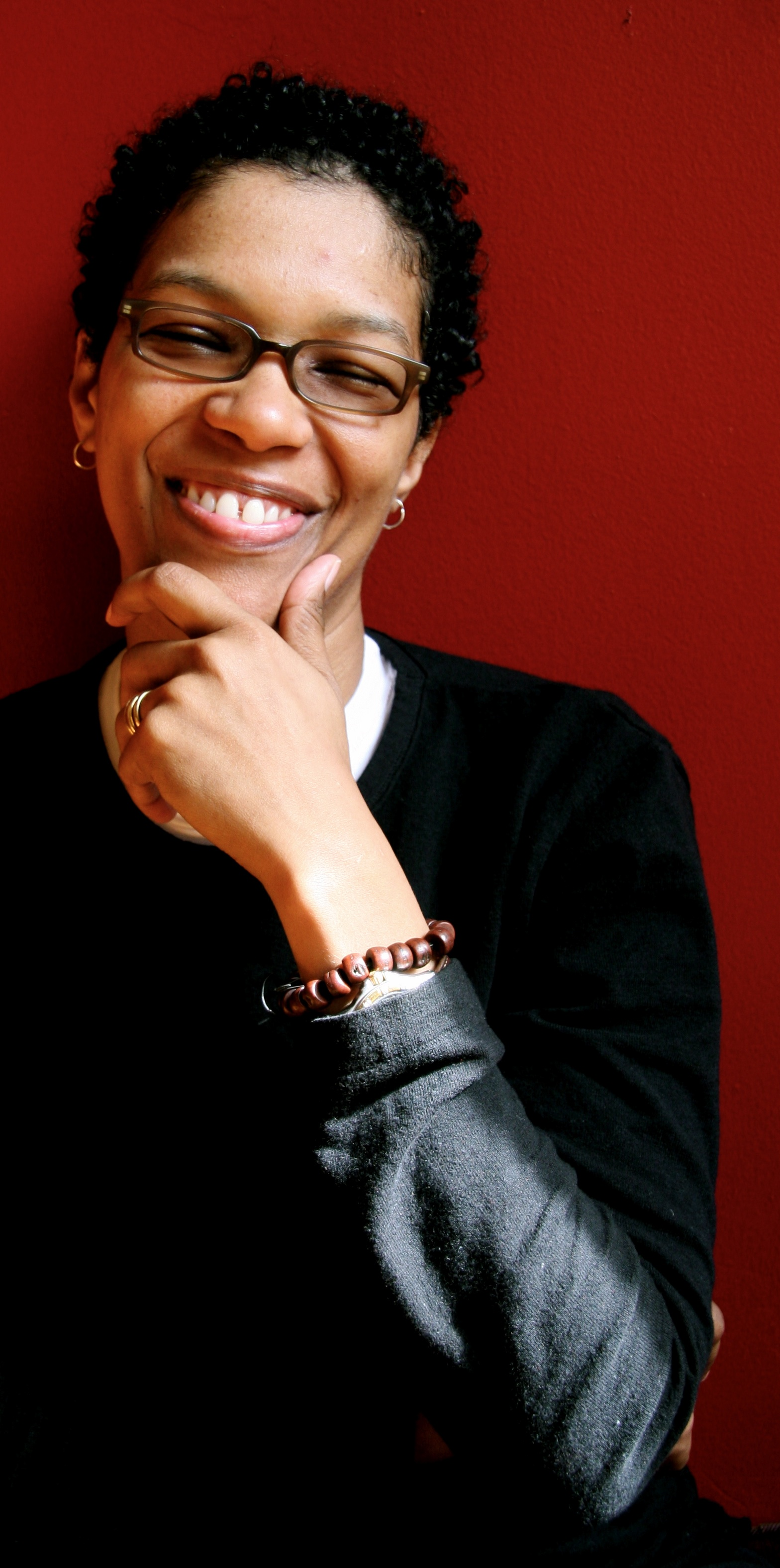 Photograph of author, activist and Zen Priest, angel Kyodo williams